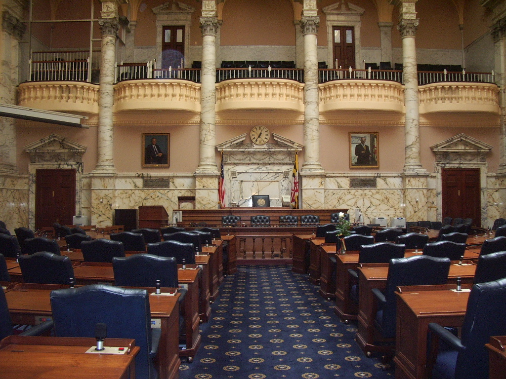 Chamber of House of Delegates, Maryland State Legislature.